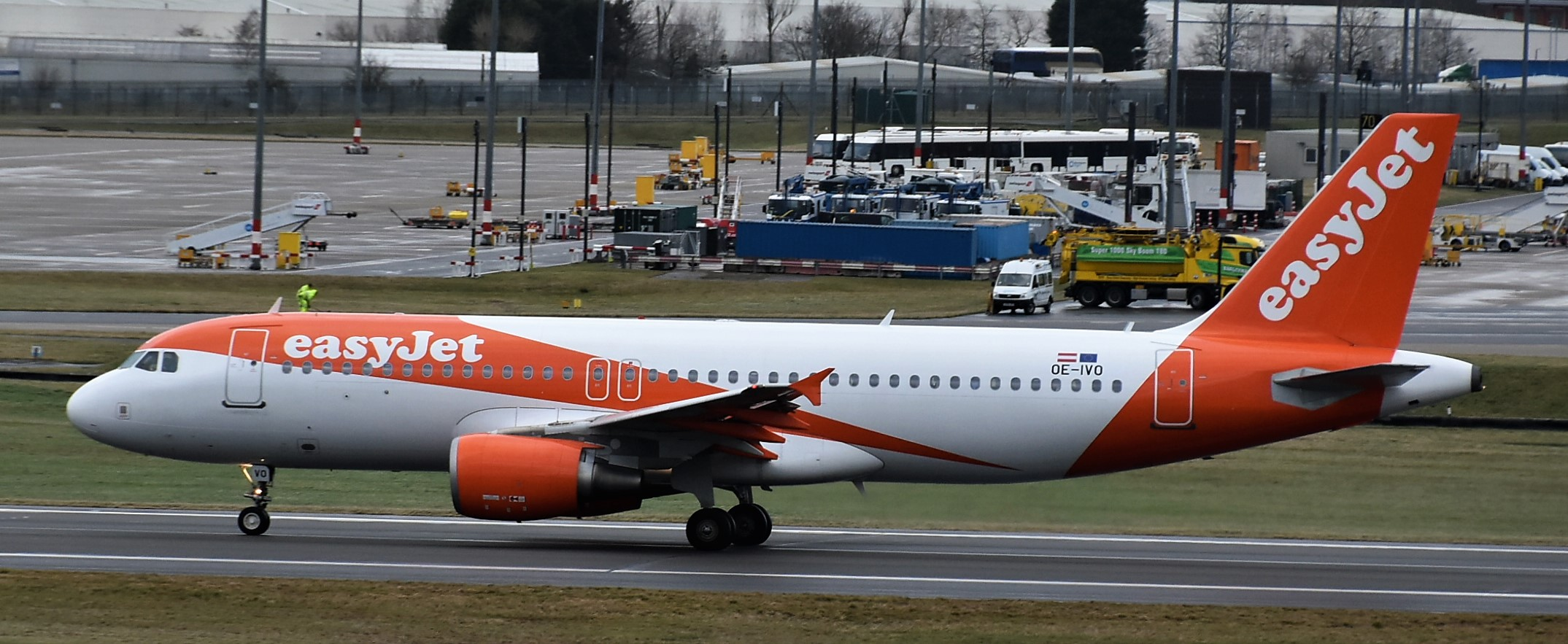 Airbus A320 of EasyJet Europe departing rwy.33 at Birmingham-BHX,04/01/18.